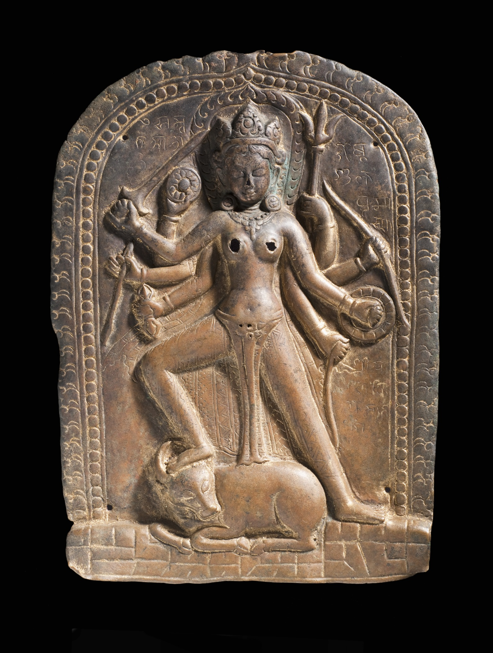 Nepal, 1090 Sculpture Repoussé copper alloy with traces of gilding Gift of Doris and Ed Wiener (M.84.124.1) South and Southeast Asian Art